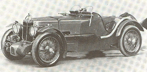 1933 MG K3 Magnette